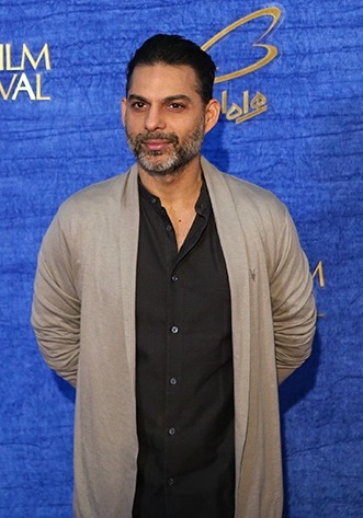 Payman Maadi